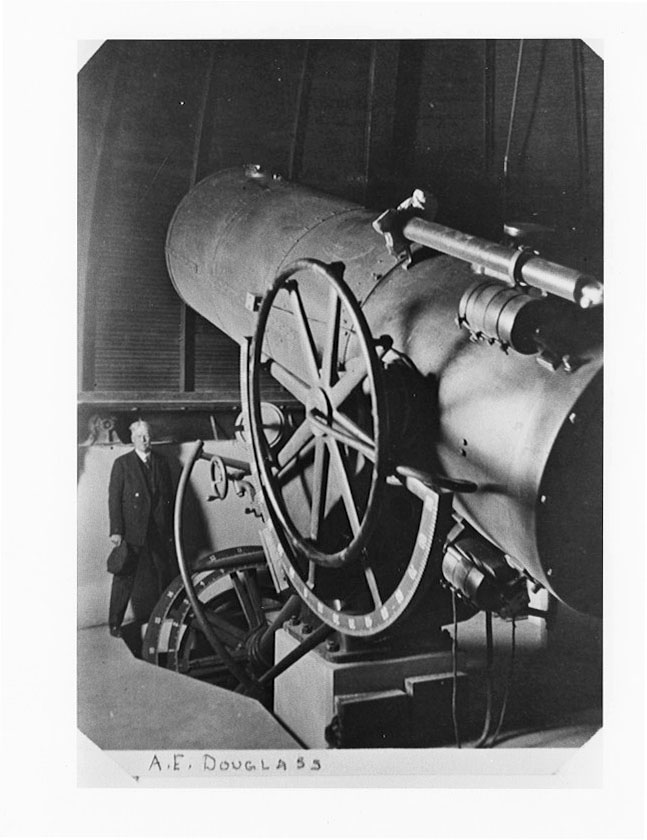 Prof. A. E. Douglass and the original Steward Observatory 36-inch Telescope (moved to Kitt Peak in 1963)